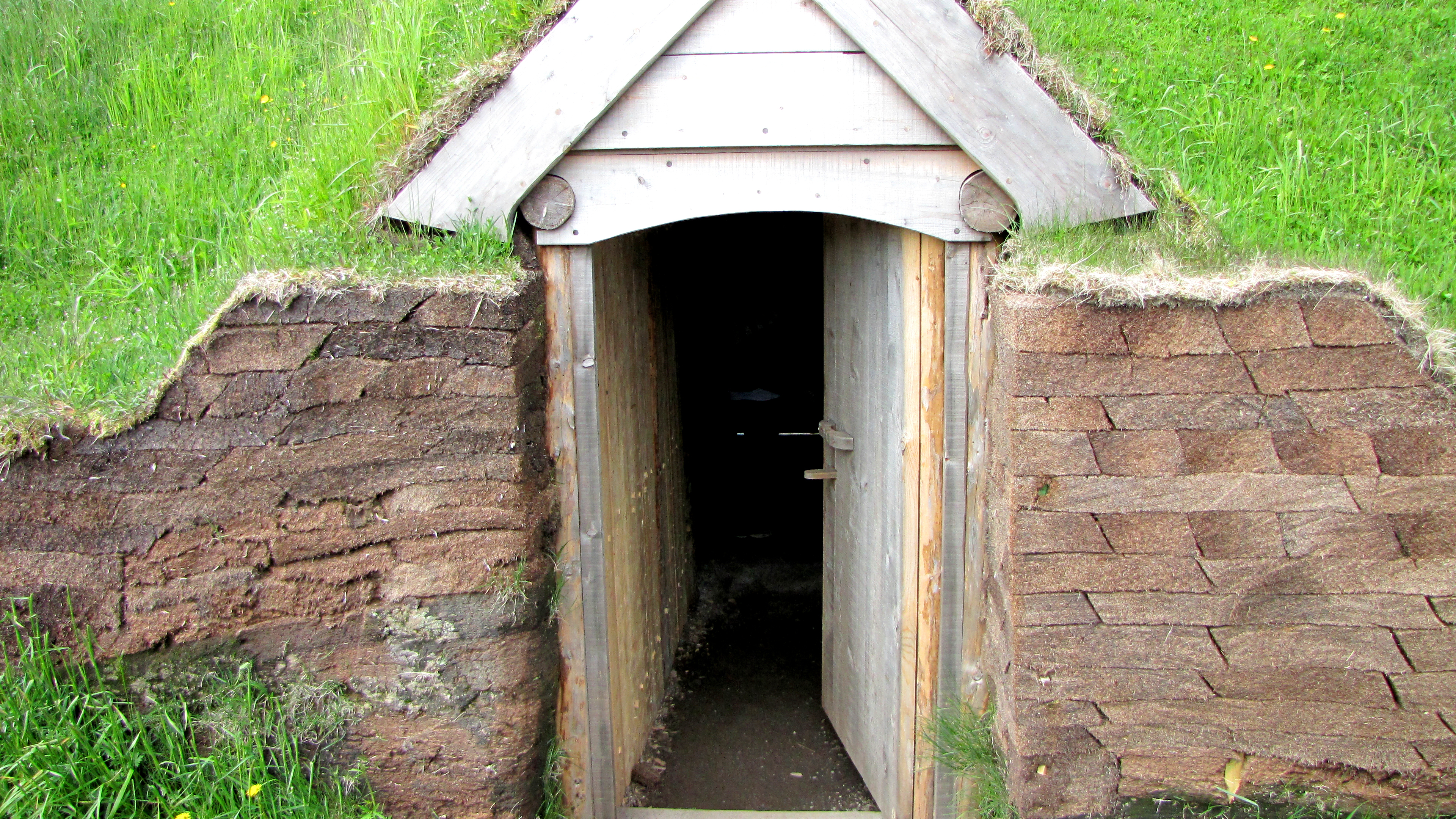 Entrance to sod house, L'Anse aux Meadows, Newfoundland and Labrador, Canada